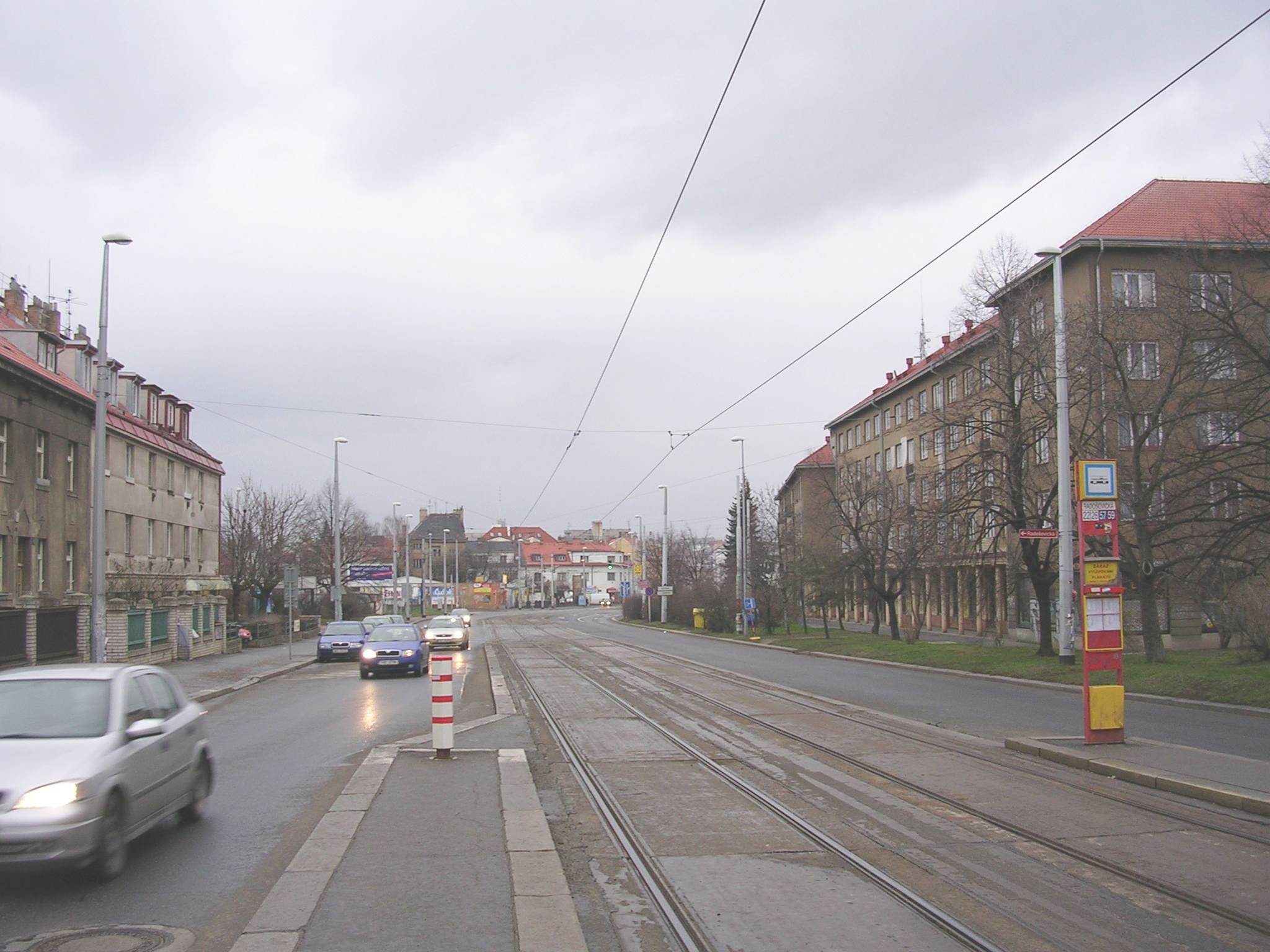 Strašnice, Prague, the Czech Republic.